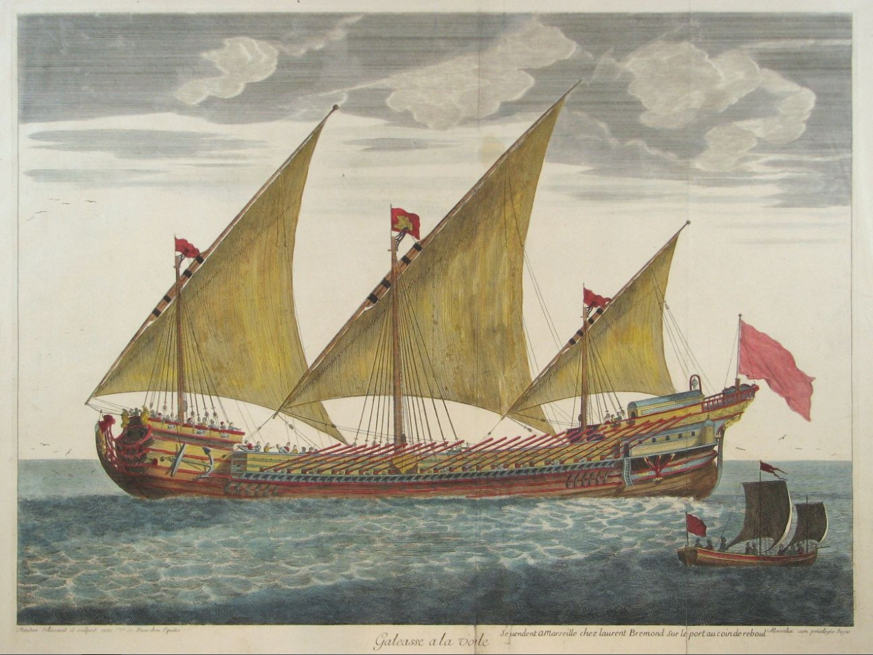 Engraving of a galleass from Plan de Plusieurs Batiments de Mer avec leurs Proportions (c. 1690). Engraving by Claude Randon.